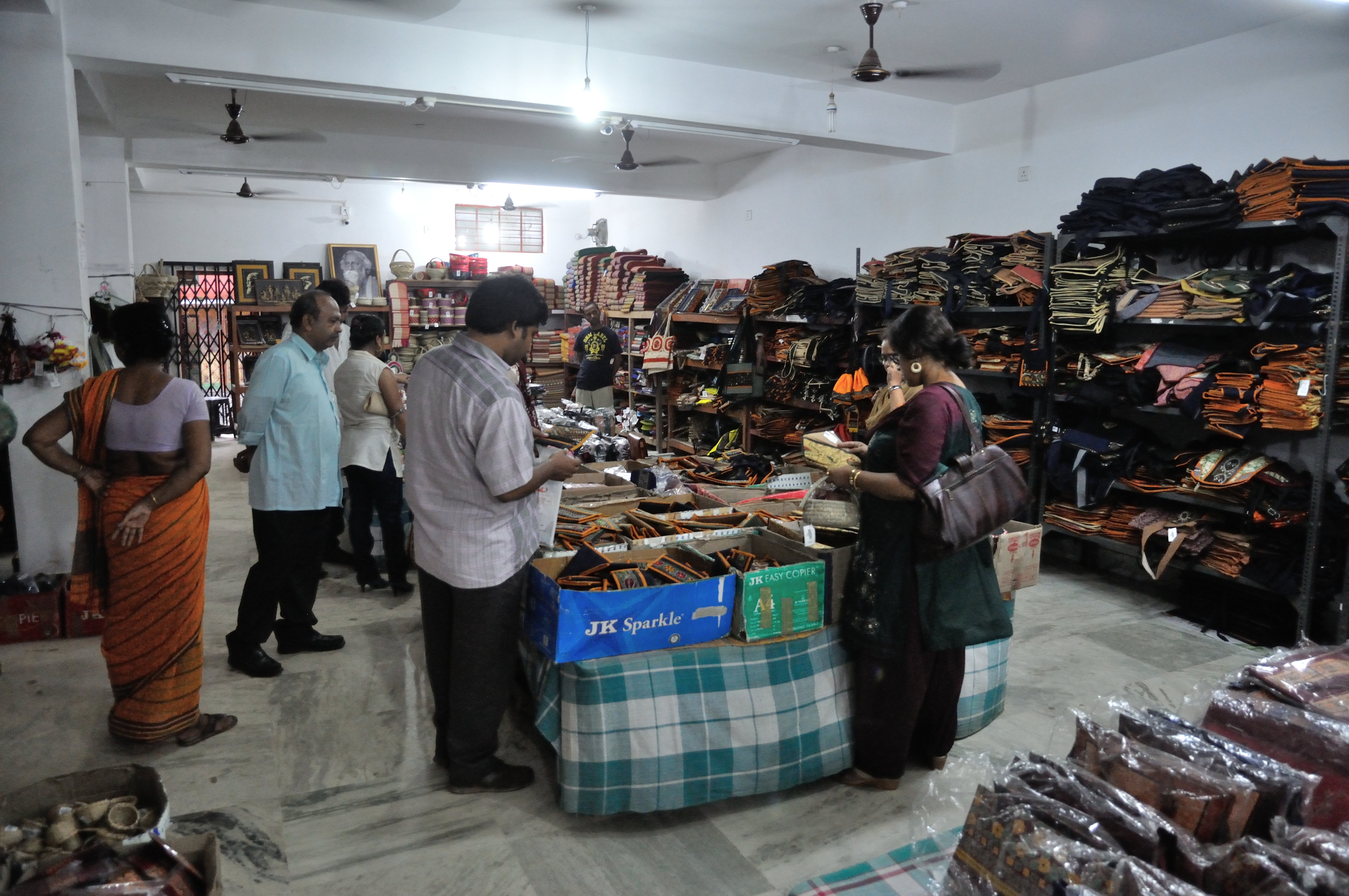 Amar Kutir (bn: আমার কুটির) is a co-operative unit that established in 1922 CE, at Ballabhpur, Birbhum. It was formally registered as 'Amar Kutir Society For Rural Development' in May 1978. It is situated at 5 km from Santiniketan and 2 km from Sriniketan, Birbhum.